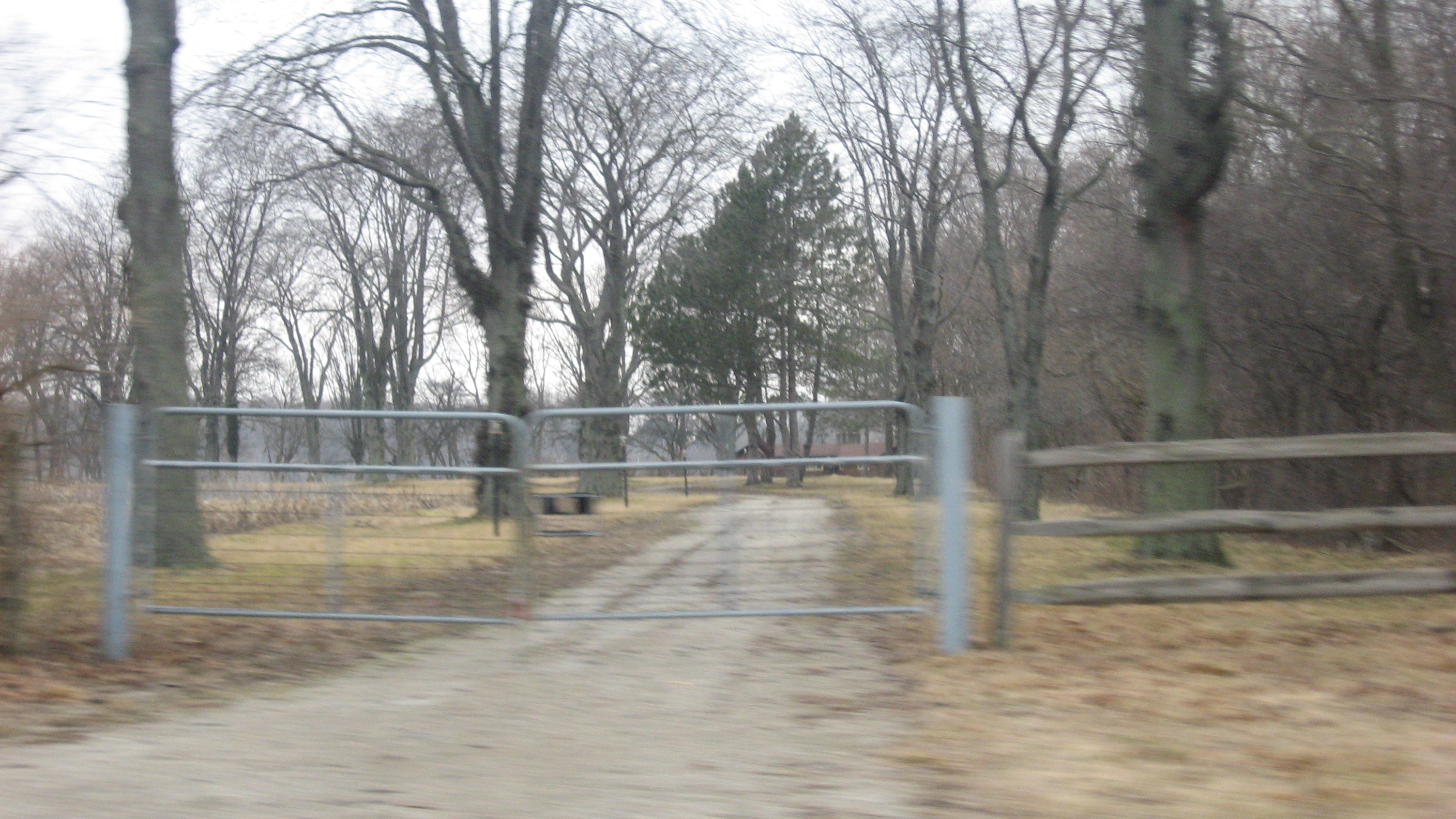 Driveway to the property at 17090 River Road (State Route 65) northwest of Haskins in Middleton Township, Wood County, Ohio, United States. This is located on the edge of the Dodge Site, an archaeological site that is listed on the National Register of Historic Places.